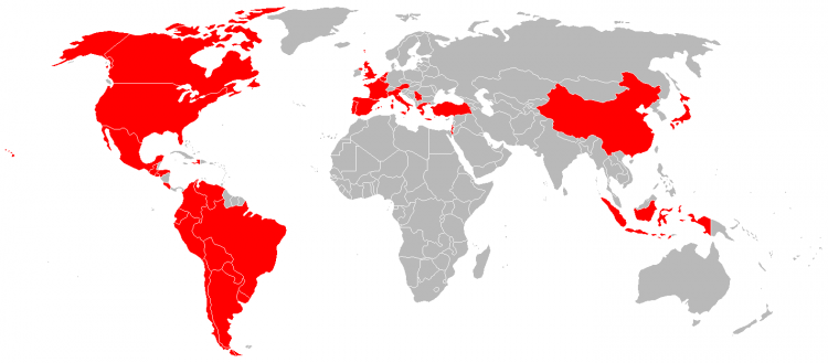 All CA Independiente visited countries.